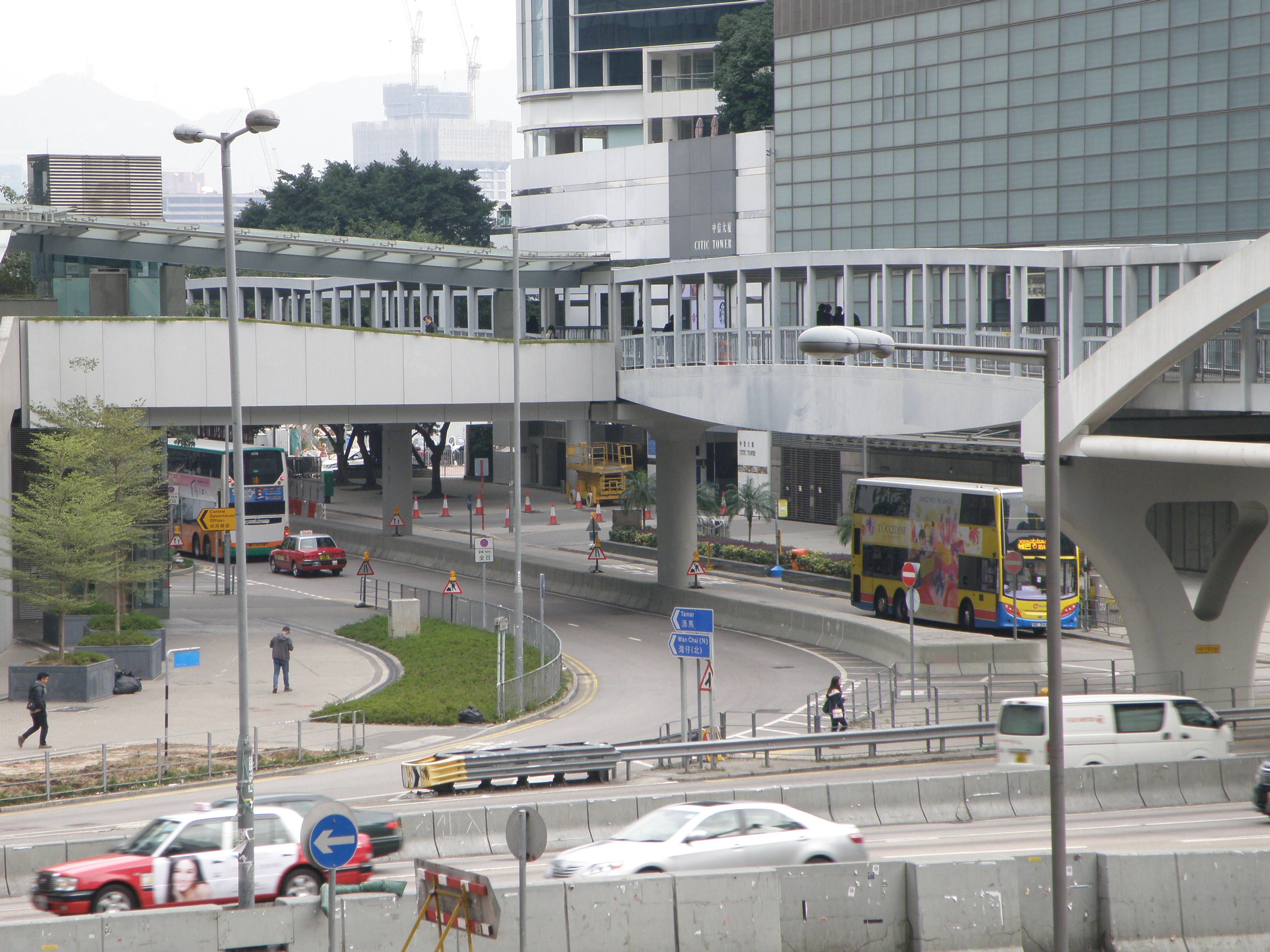 Tim Mei Avenue in Admiralty, Hong Kong.